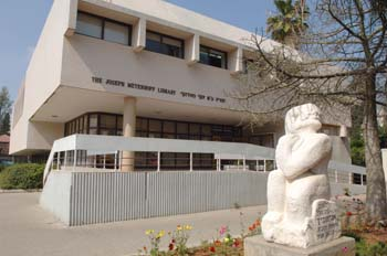 The central library in Rehovot, Israel